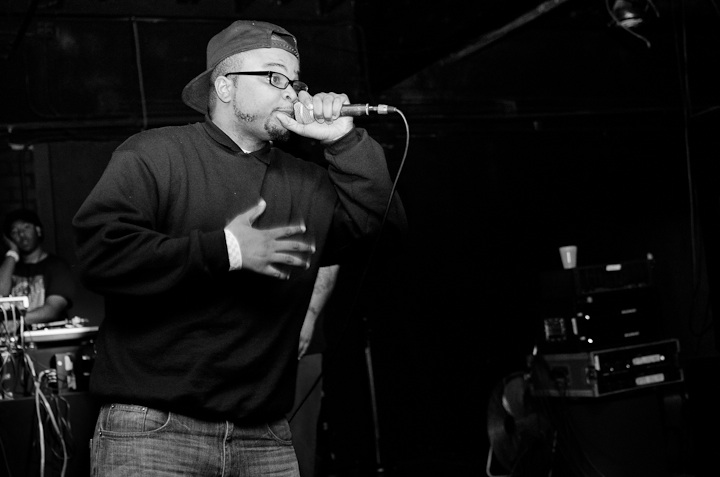 Roqy Tyraid performing live.